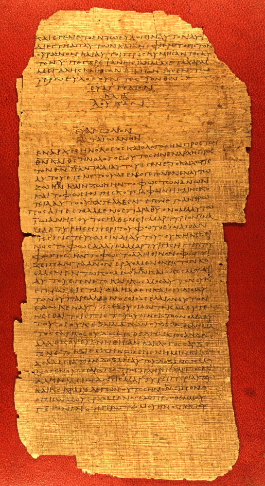 Papyrus 75, f. 2A8r; end of the Gospel of Luke and beginning of the Gospel of John